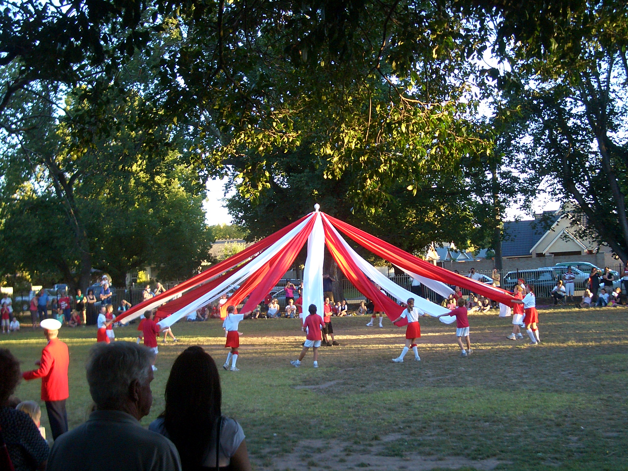 Students perform maypole dance, as the city brass band play music, at a Sale Primary School event, Sale, Victoria